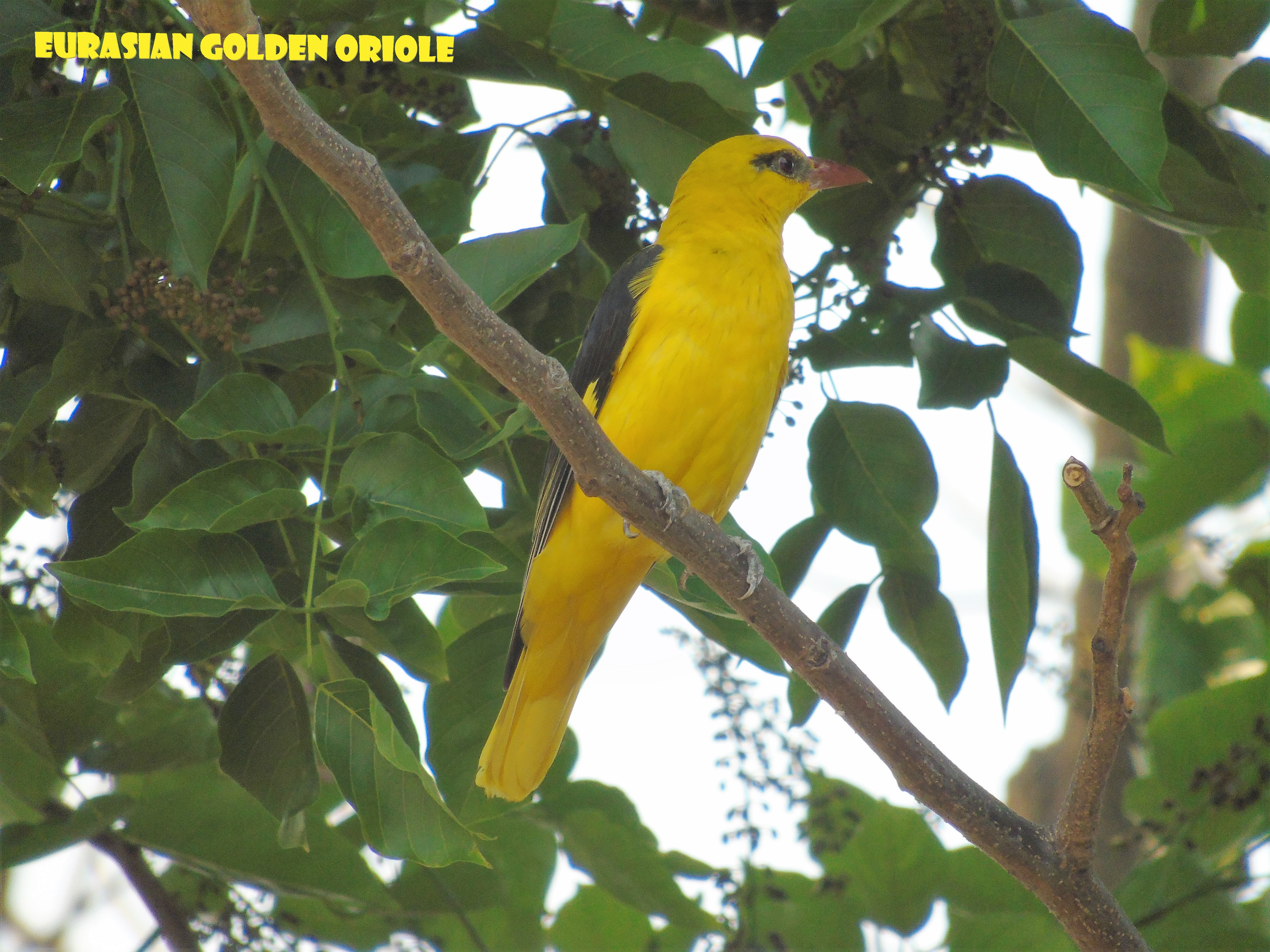 Taken in Dharmapuri, TamilNadu